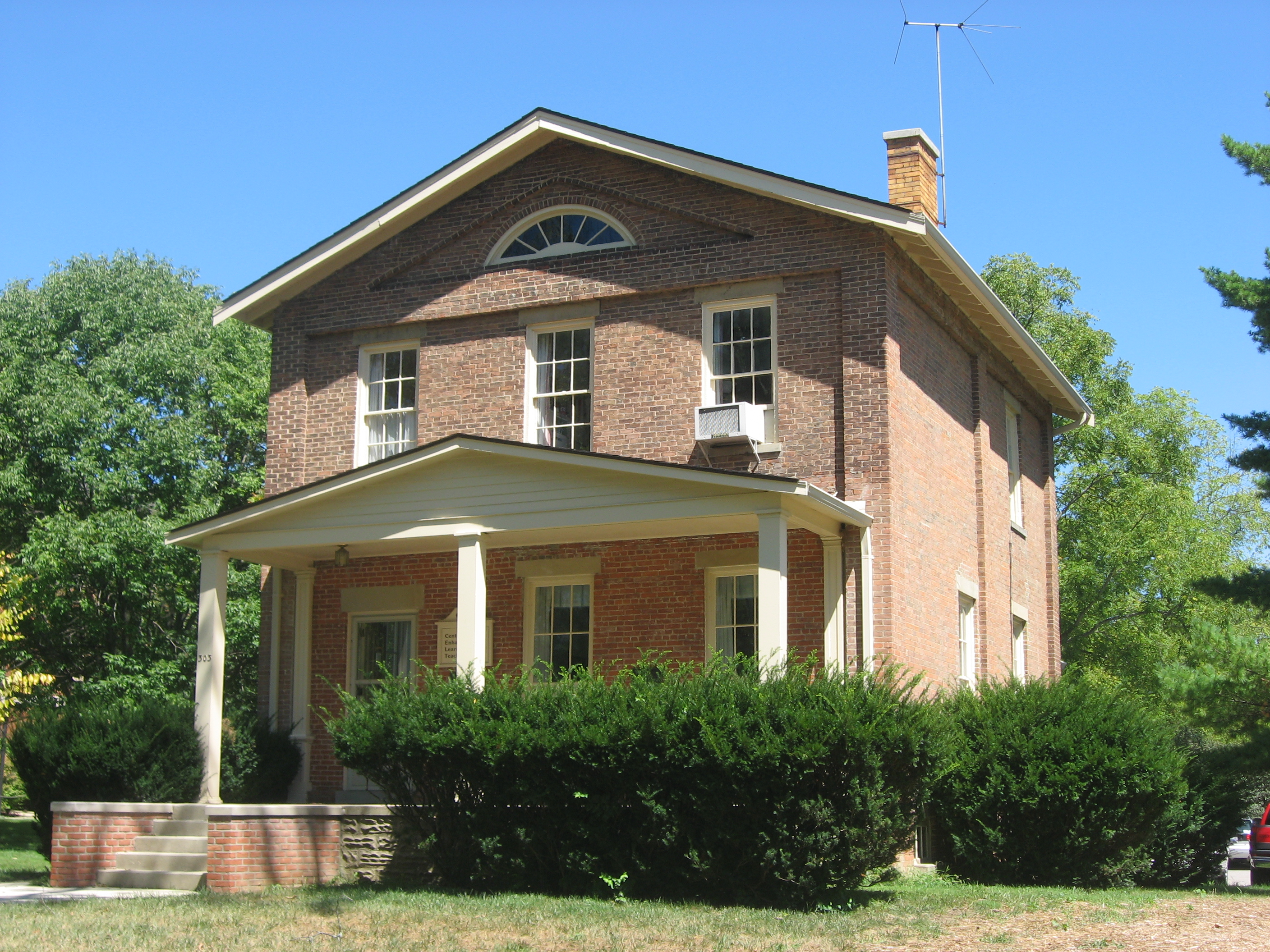 Front and southern side of Langstroth Cottage, located at 303 Patterson Avenue (U.S. Route 27) on the campus of Miami University in Oxford, Ohio, United States. Built in 1858 as the home of L. L. Langstroth and since converted into university offices, it has been designated a National Historic Landmark.